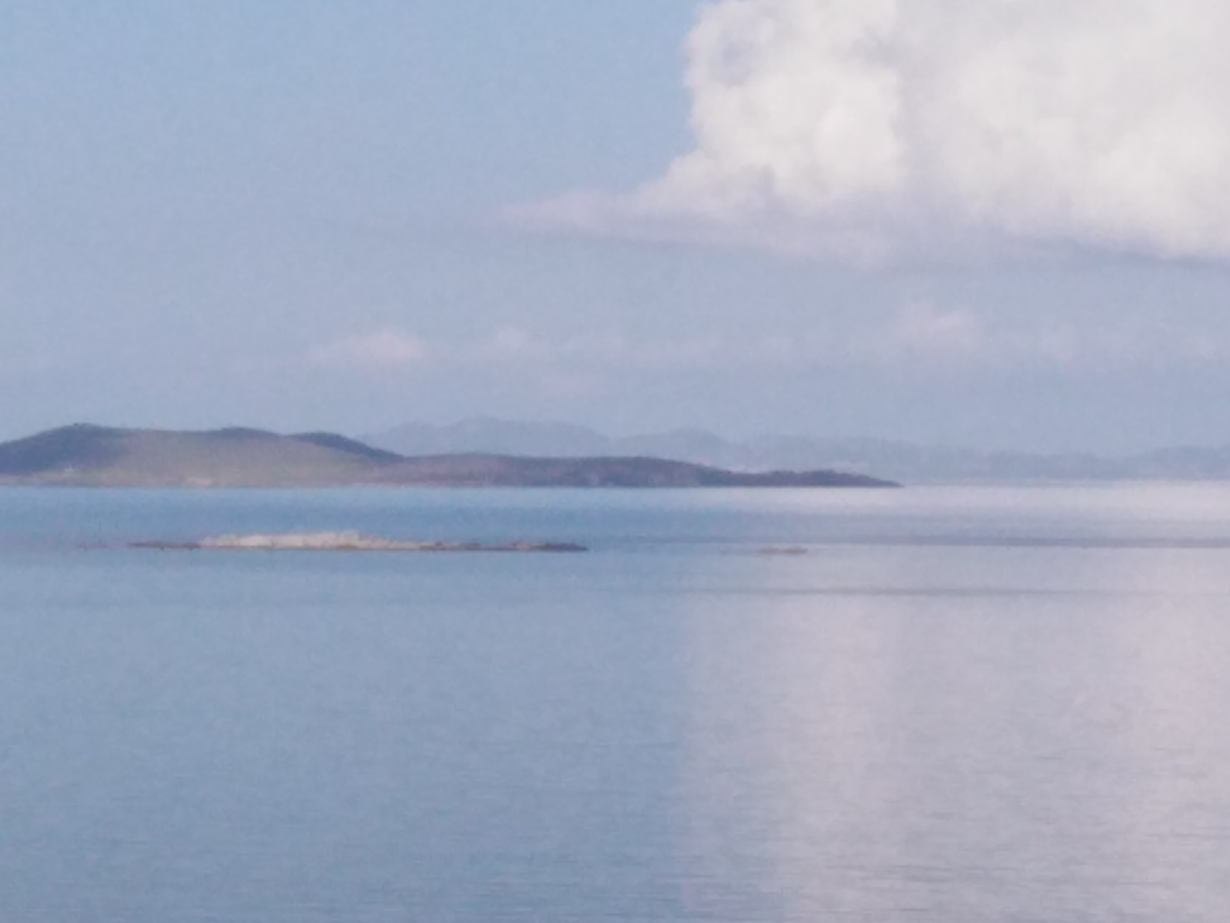 Kavouras and Micro Kavouronhsi, Mykonos